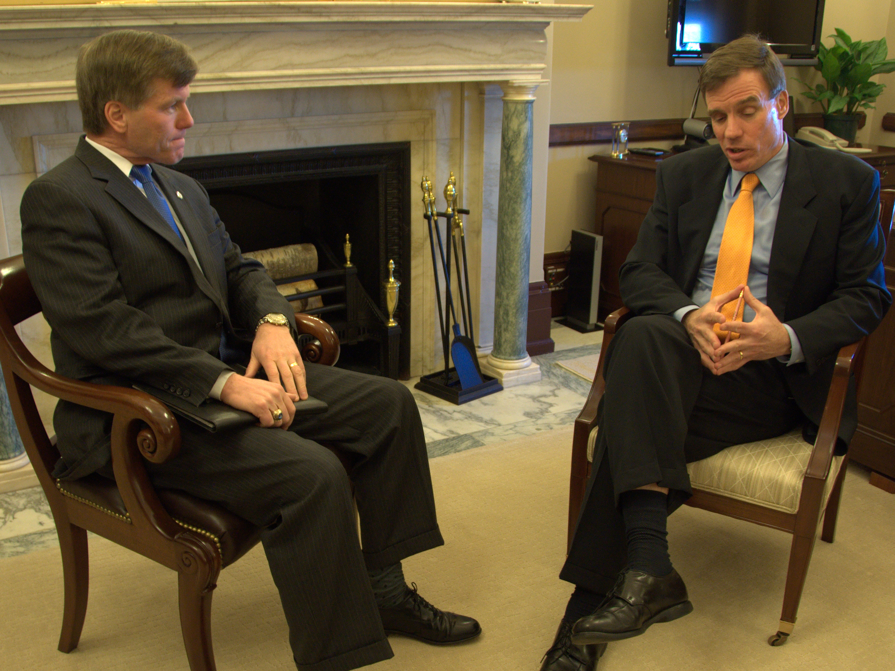 Virginia Governor Bob McDonnell visits with U.S. Senator Mark Warner in Warner's Capitol Hill office on February 4, 2010. (Photo by Riki Parikh/Sen. Mark Warner's Office)